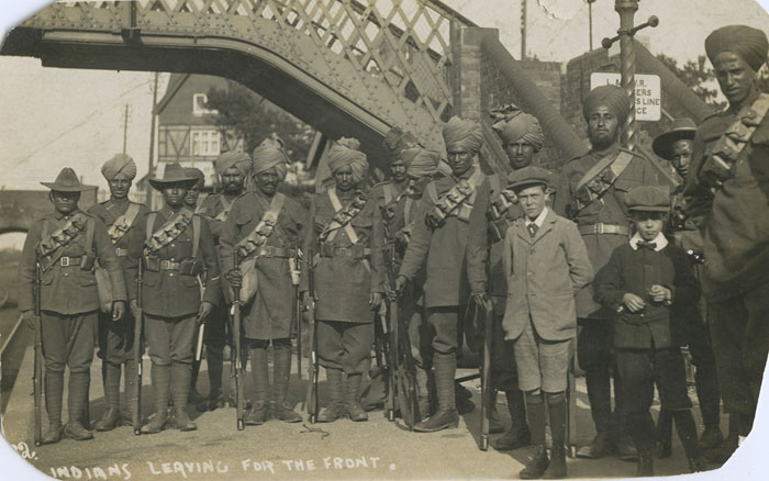 Image of Soldiers posing for group photo. Labelled Indians leaving for the Front, this photograph shows a group of soldiers from the sub-continent preparing to depart for France from the station at New Milton. A couple of local boys have come to watch the goings on and been included on the right of the photograph.